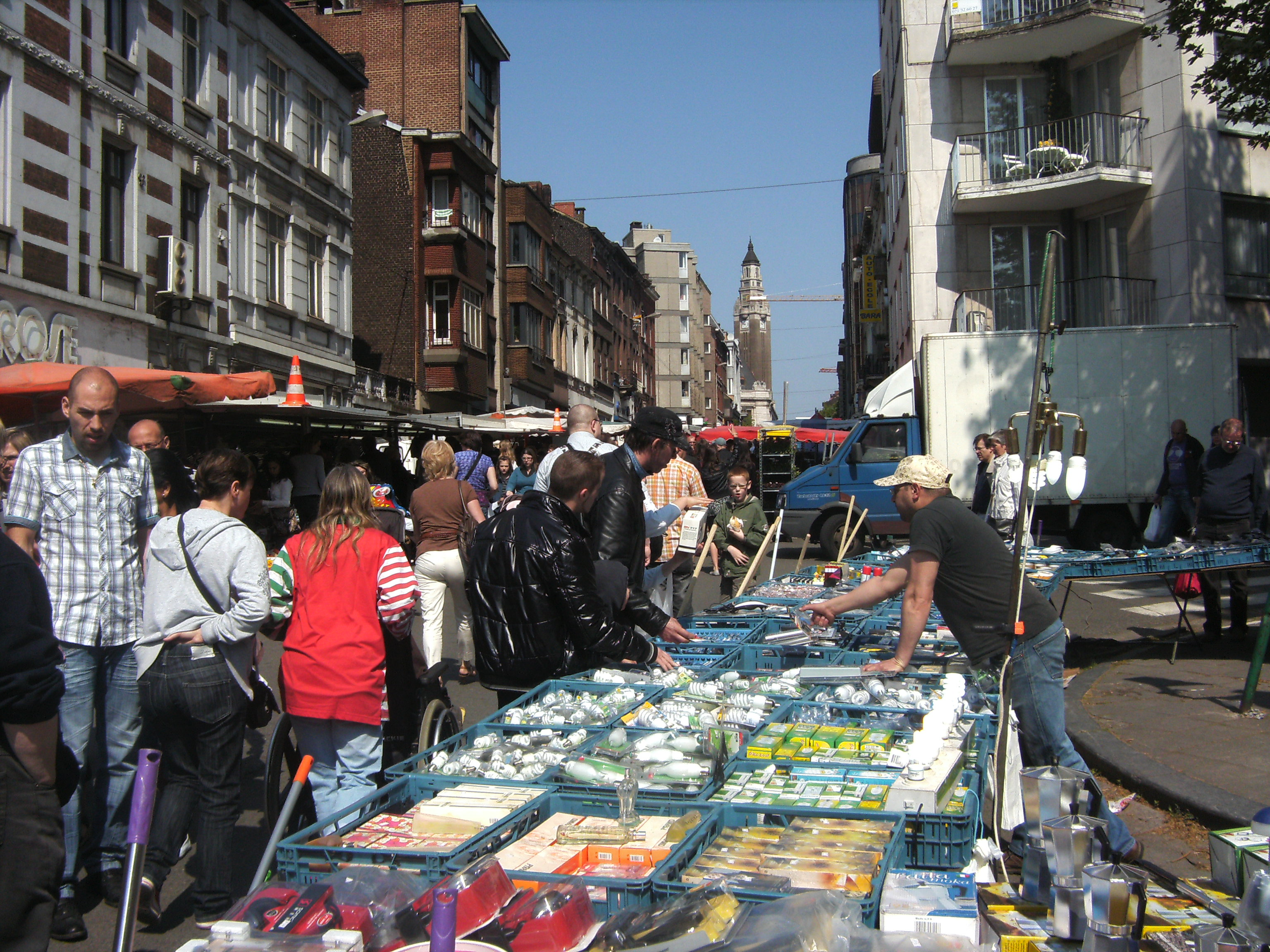 Charleroi (Belgium) - Orleans street on market day (sunday)